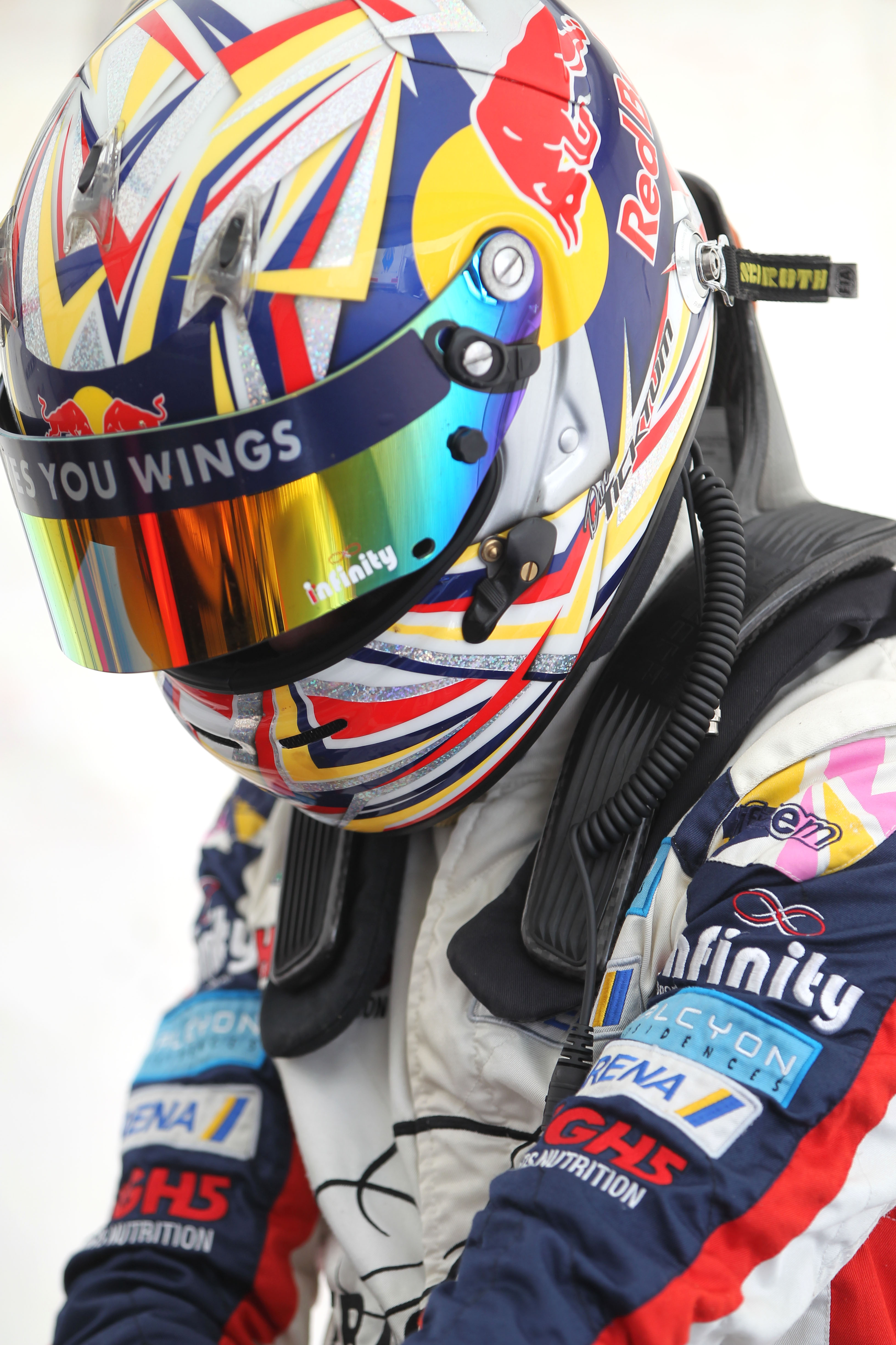 Dan Ticktum in 2015